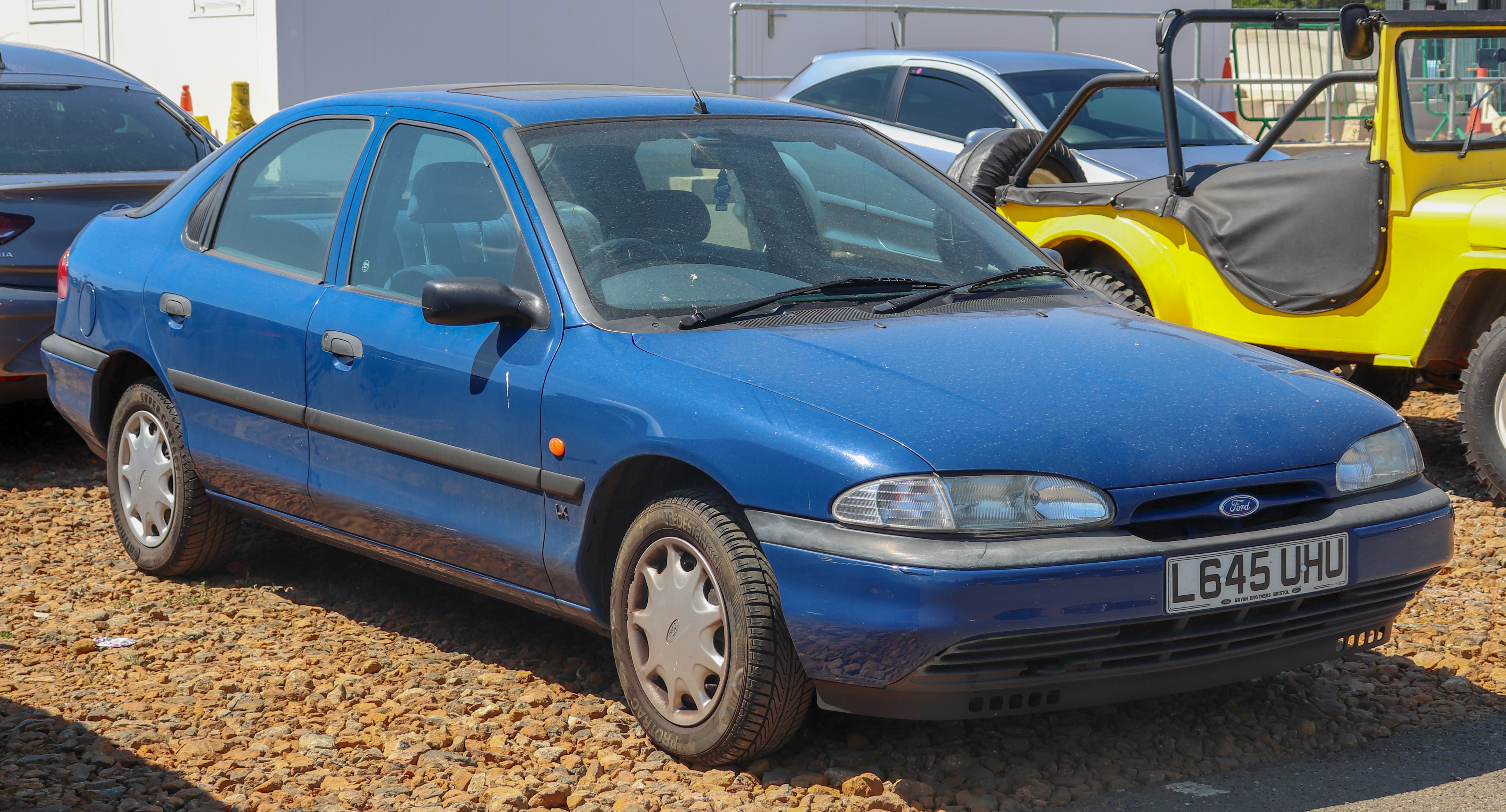 1994 Ford Mondeo LX 1.8 Front Taken at the British Motor Museum Old Ford Rally 2018, Gaydon